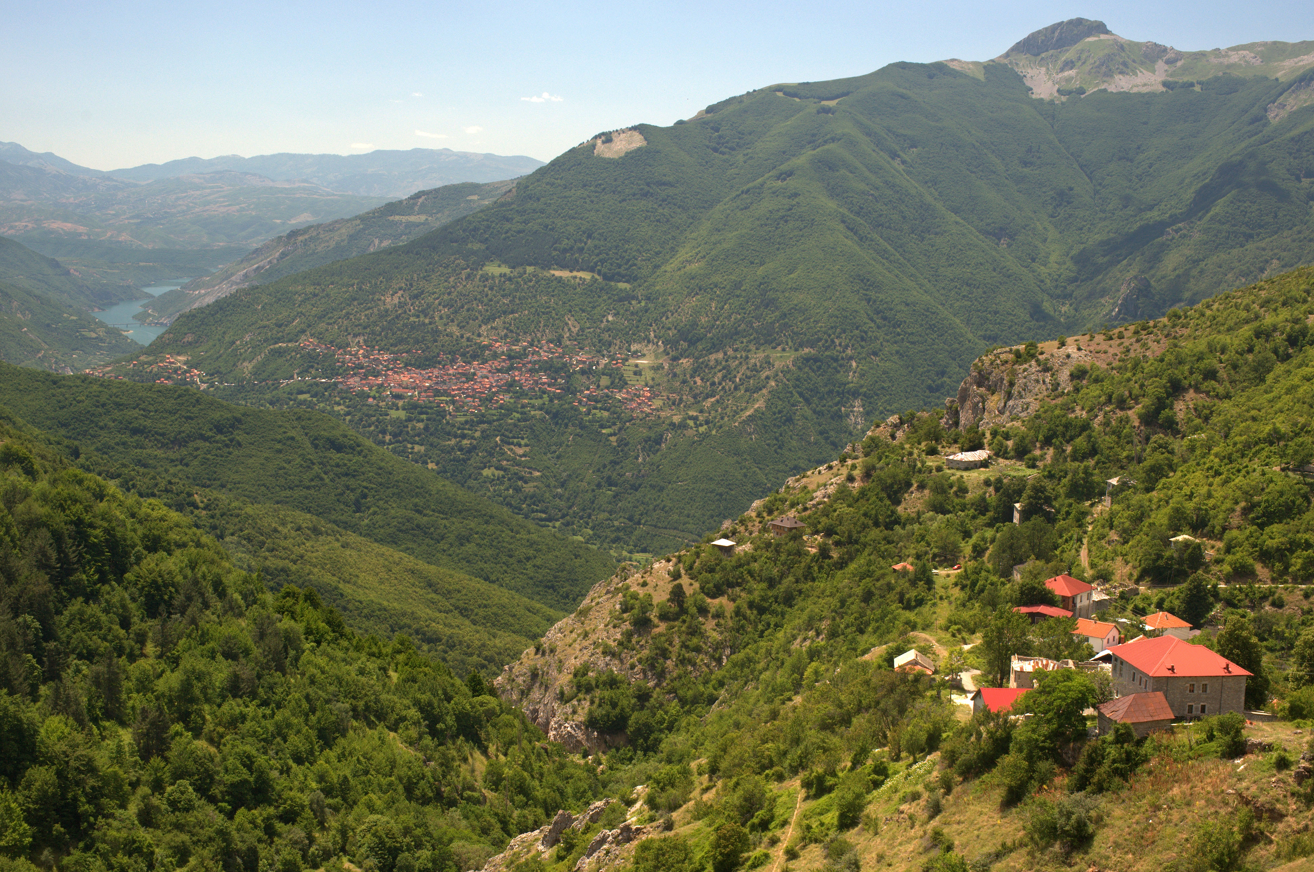 Panoramic image of Debar lake, Skudrinje and Galičnik village, Republic of Macedonia.